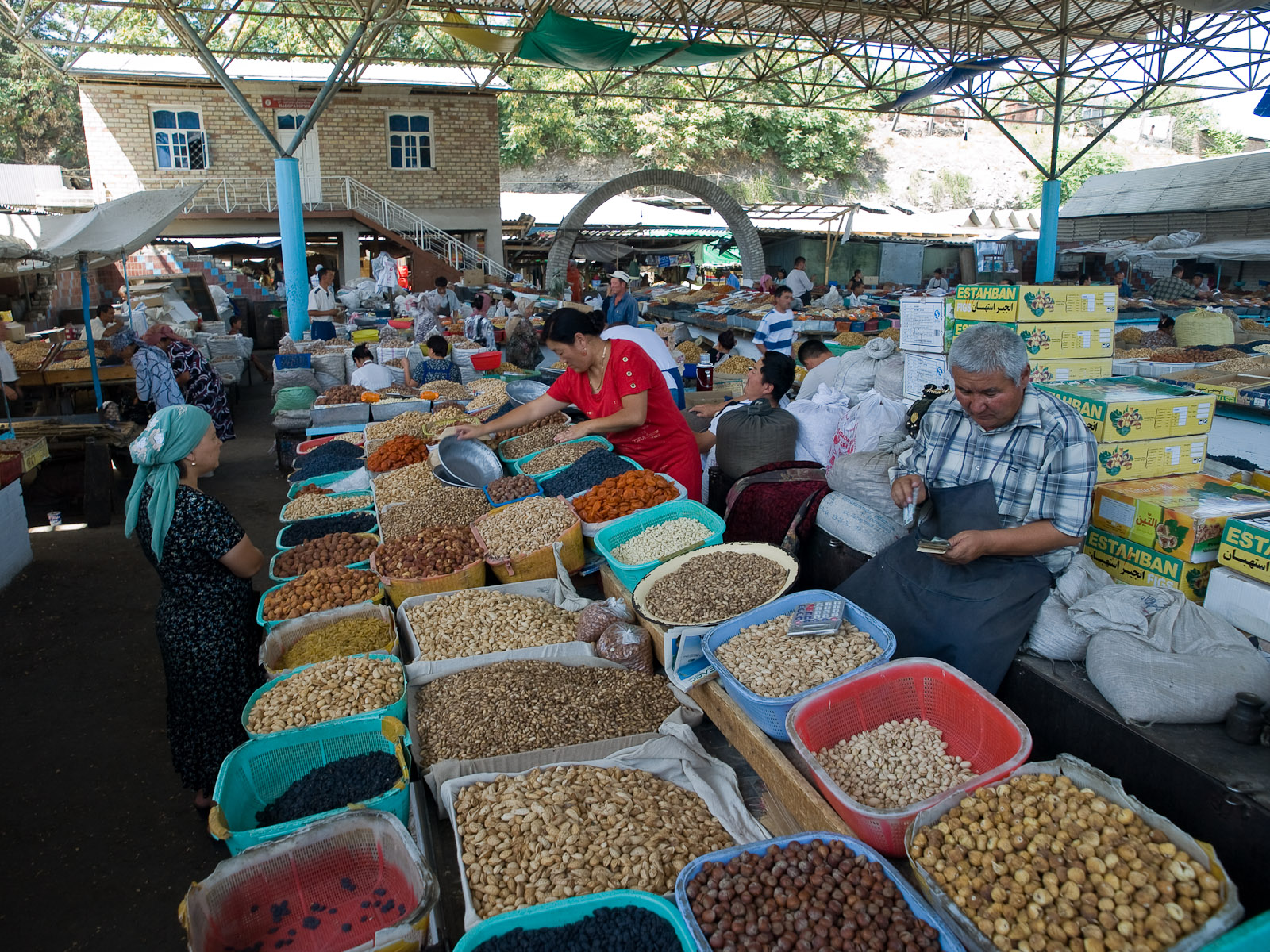 Market stand in Osh with nuts and dried fruit